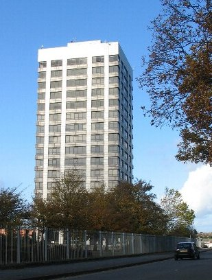 Office block, Banner Lane. This 17-storey tower block was built for Massey Ferguson (later Agco) in 1965 by W H Jones Ltd (Costains), architects John H D Madin & Partners, Birmingham. The 1930's Massey Ferguson factory buildings which stood behind the tower have been demolished and new housing is gradually taking its place. The tower block stands empty at the moment and its future is uncertain. It makes an appearance in photos from several other points: 96774 (2005), 96829 (2005), 213968 (2006), 623475 (2007), 1078933 (2008), 1555060 (2009) and 1555051 (2009)